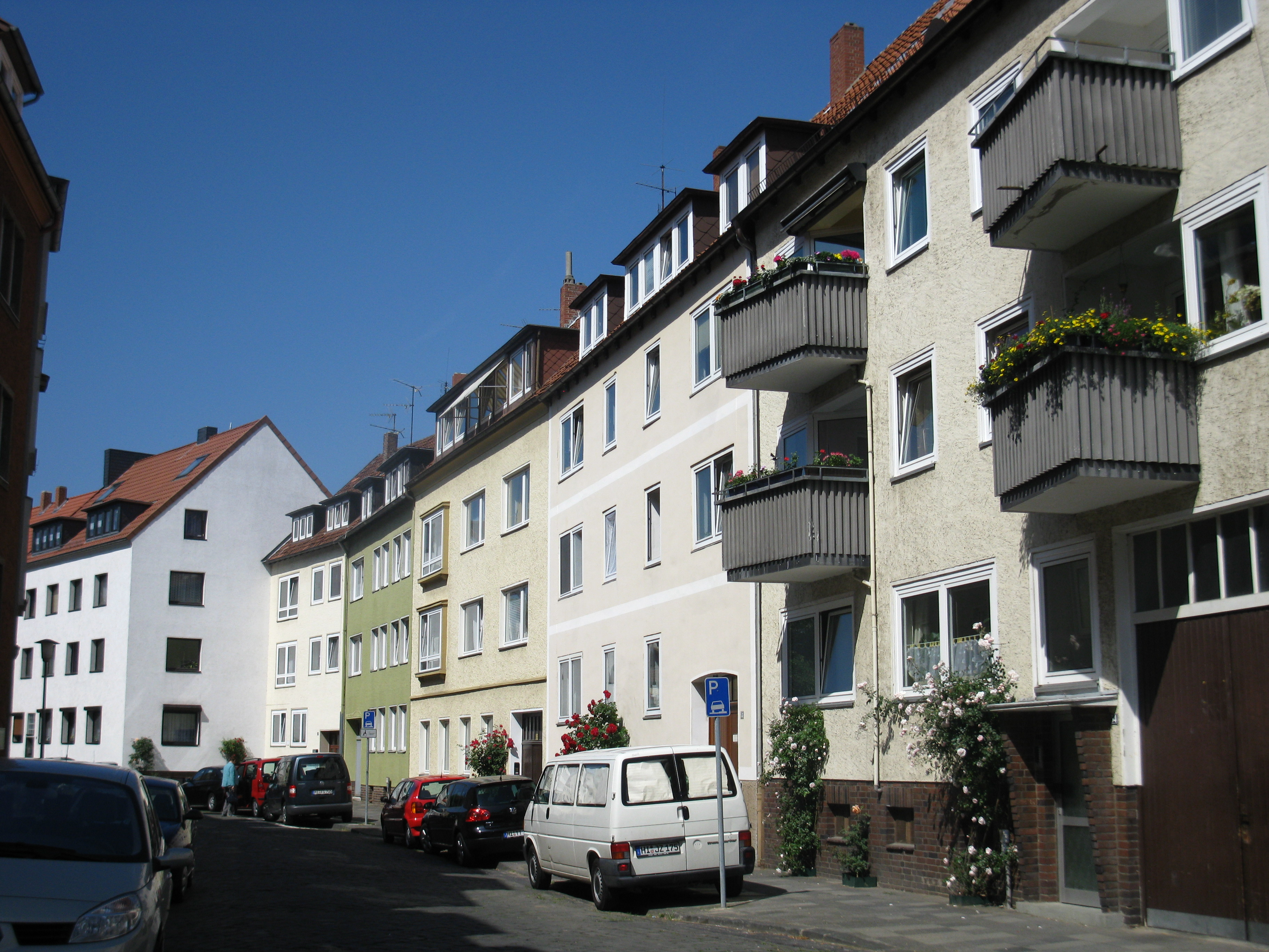 Old Market, Hildesheim, Germany